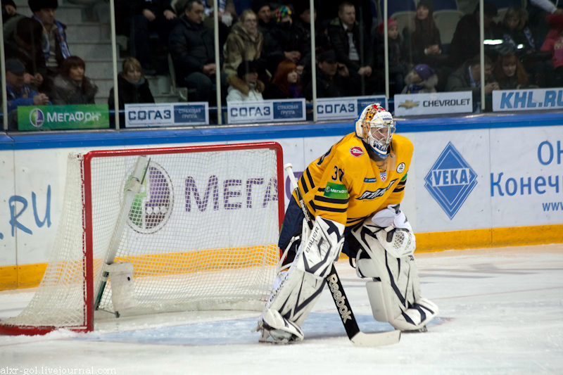 Atlant Moscow Oblast goalkeeper Konstantin Barulin in a KHL game on 29 November 2011 against Amur Khabarovsk